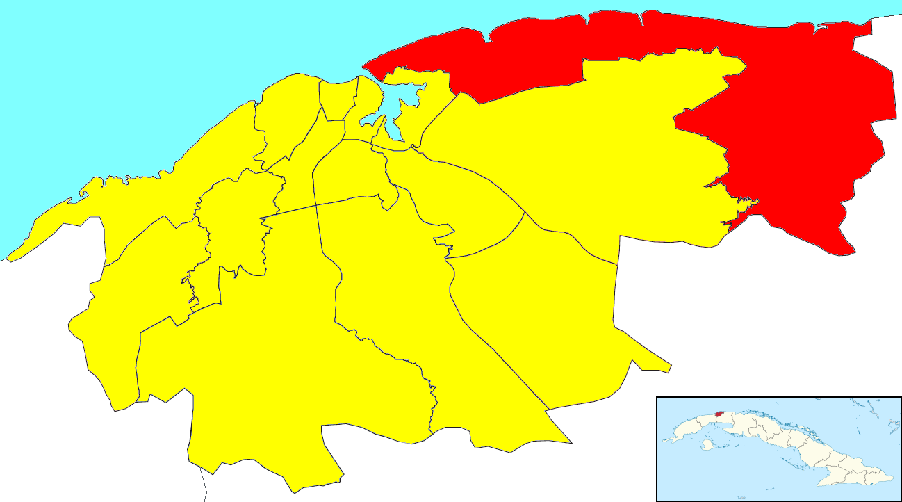 A map of the municipality of Habana del Este (shown in red) within the city of Havana (yellow). The little Cuban map in the corner shows Havana (dark red) within the island.